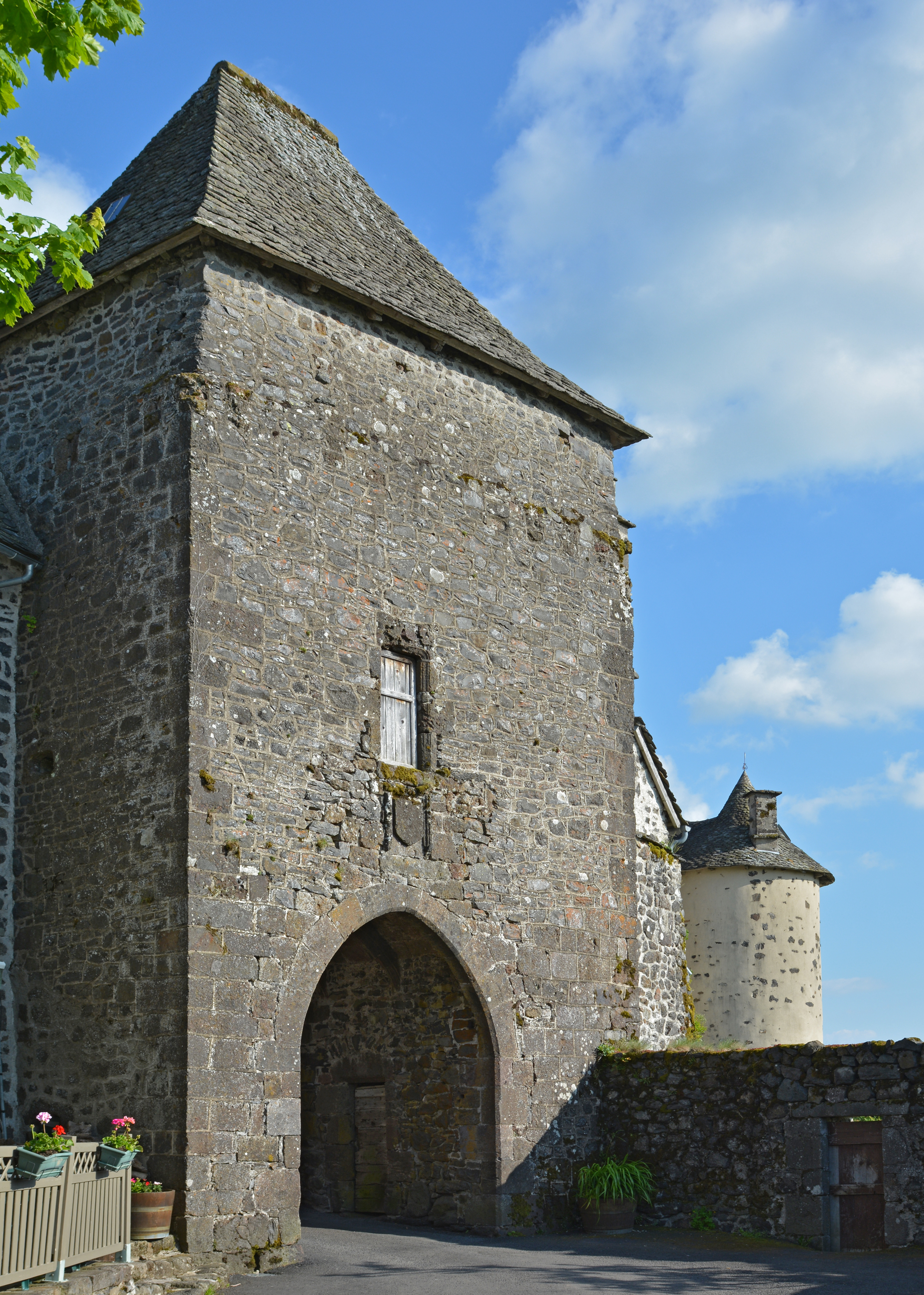 Gate Martille of Salers, Cantal, Auvergne, France